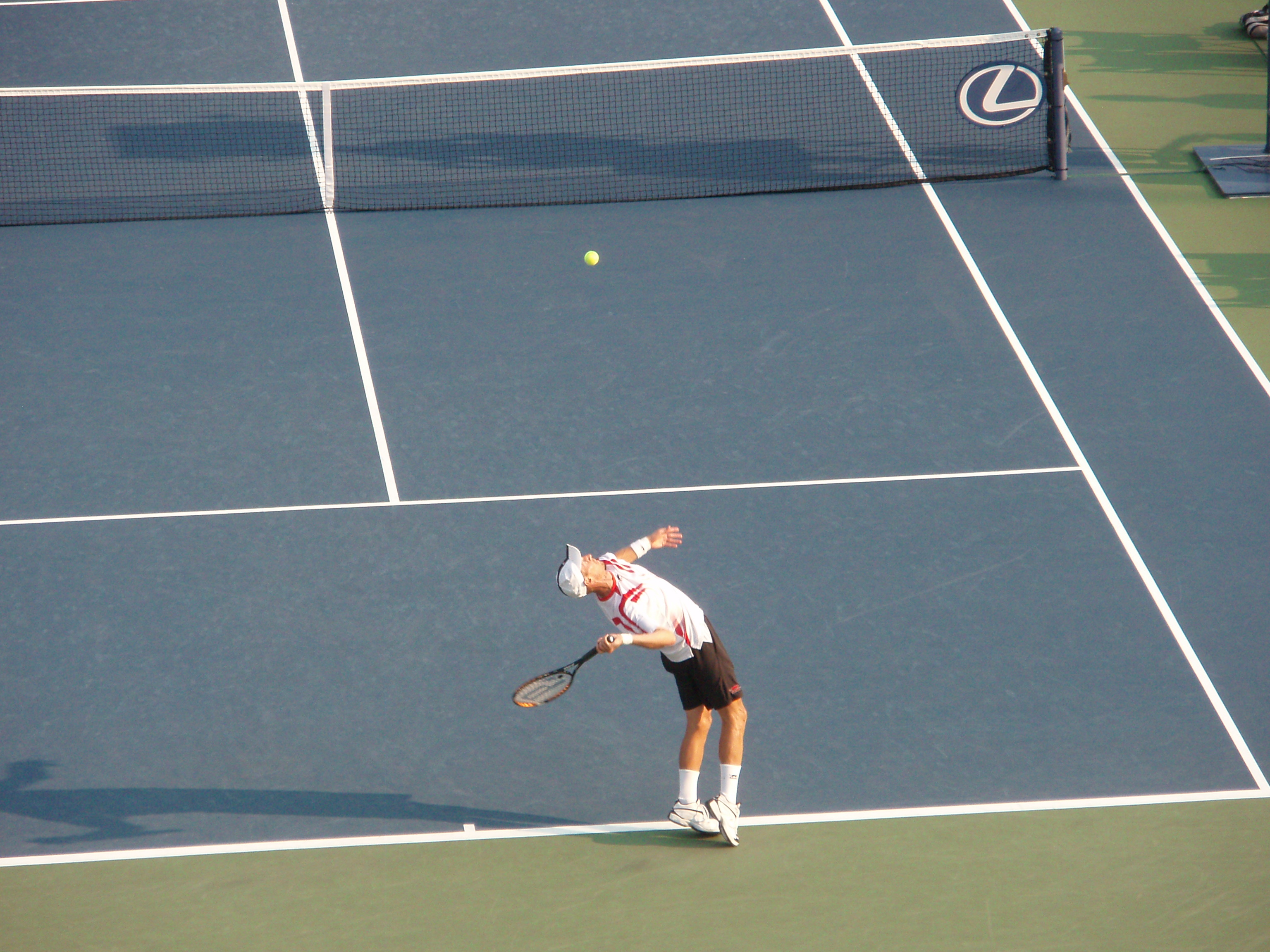 Nikolay Davydenko At The 2007 US Open